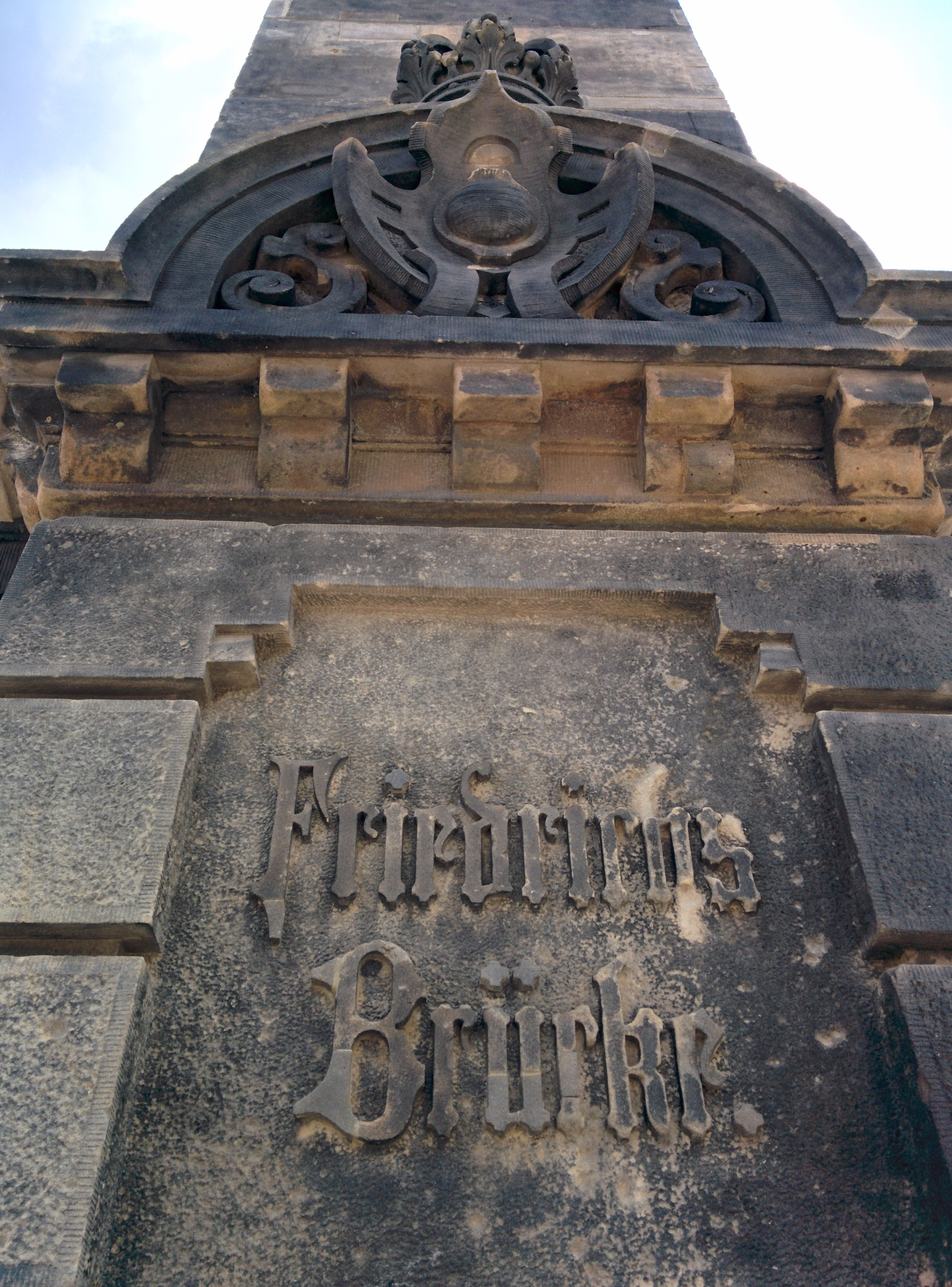 A pylon that forms part of Friedrichs Brücke (Friedrichsbrücke or Friedrichs Bridge) in Mitte, Berlin. The bridge cross the Spree linking Anna-Louisa-Karsch-Straße on mainland Mitte to Bodestraße on Museum Island.